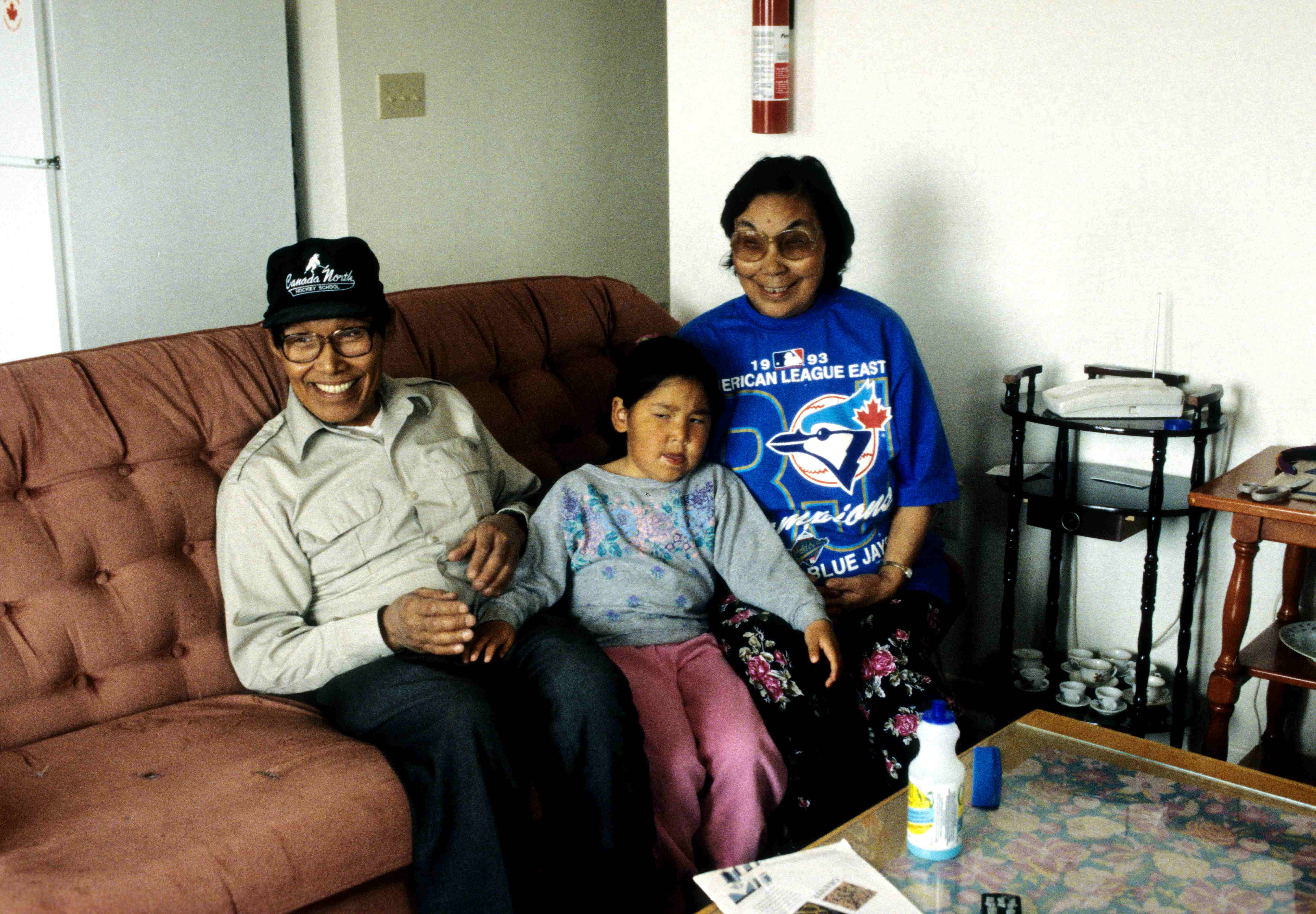 Inuit family at home (Nunavut Territory, Canada)